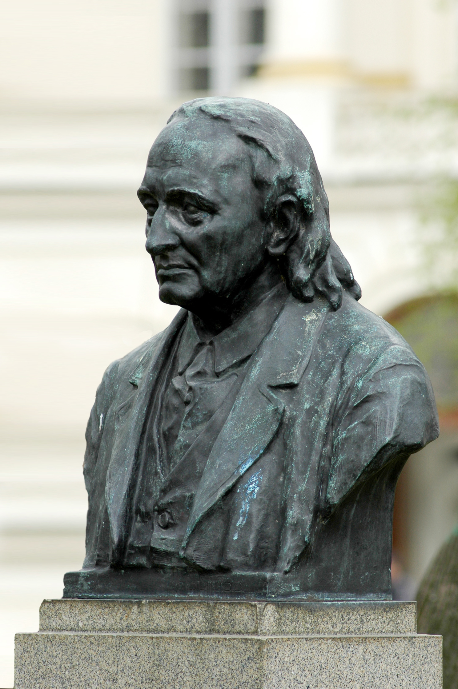 Madesperger - Memorial (Vienna 4, Karlsplatz - Resselpark) bronze bust of Carl Philipp unveiled on May 7, 1933, was removed in WW2, set up in 1949